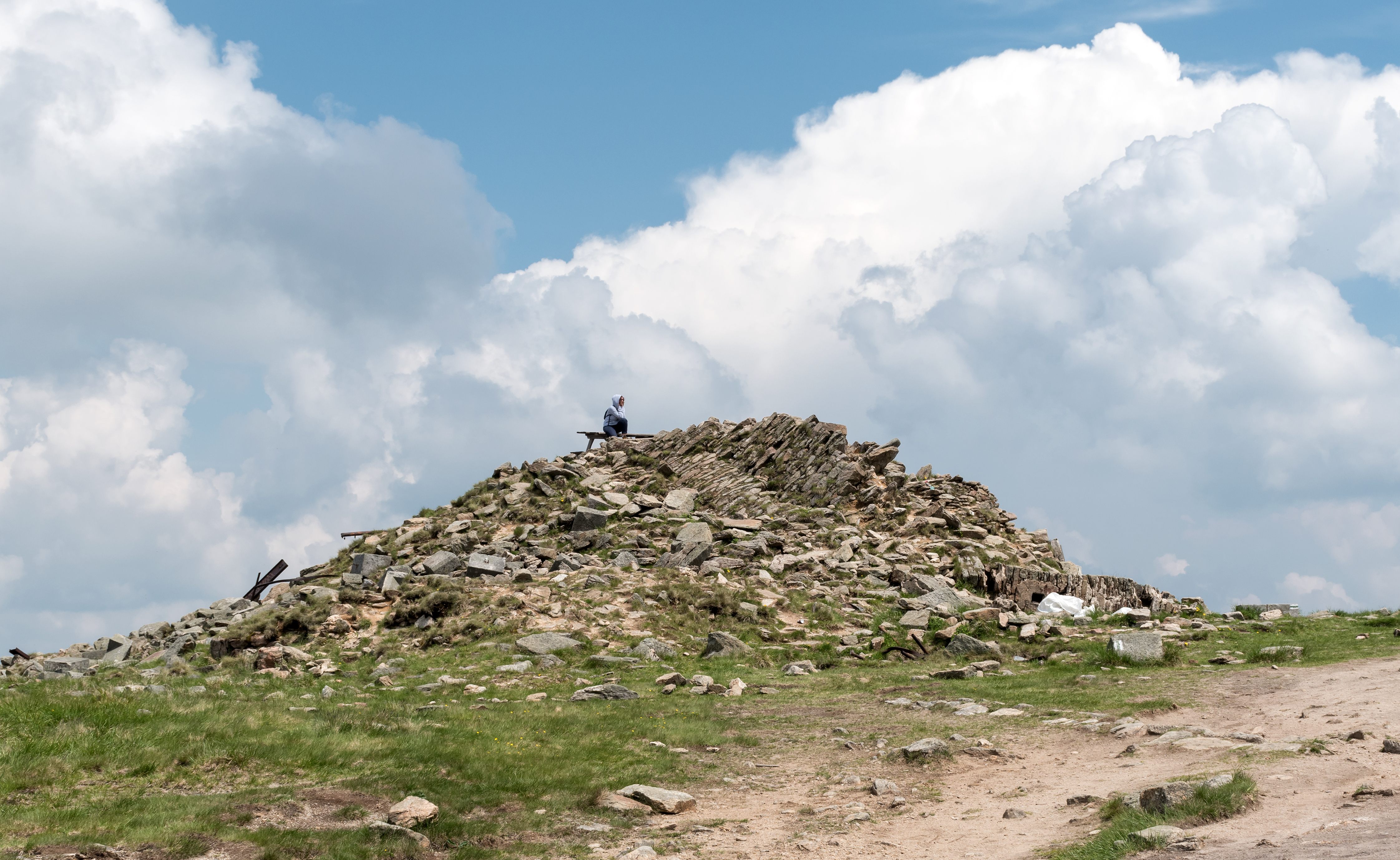 Ruins of loockout tower on Śnieżnik